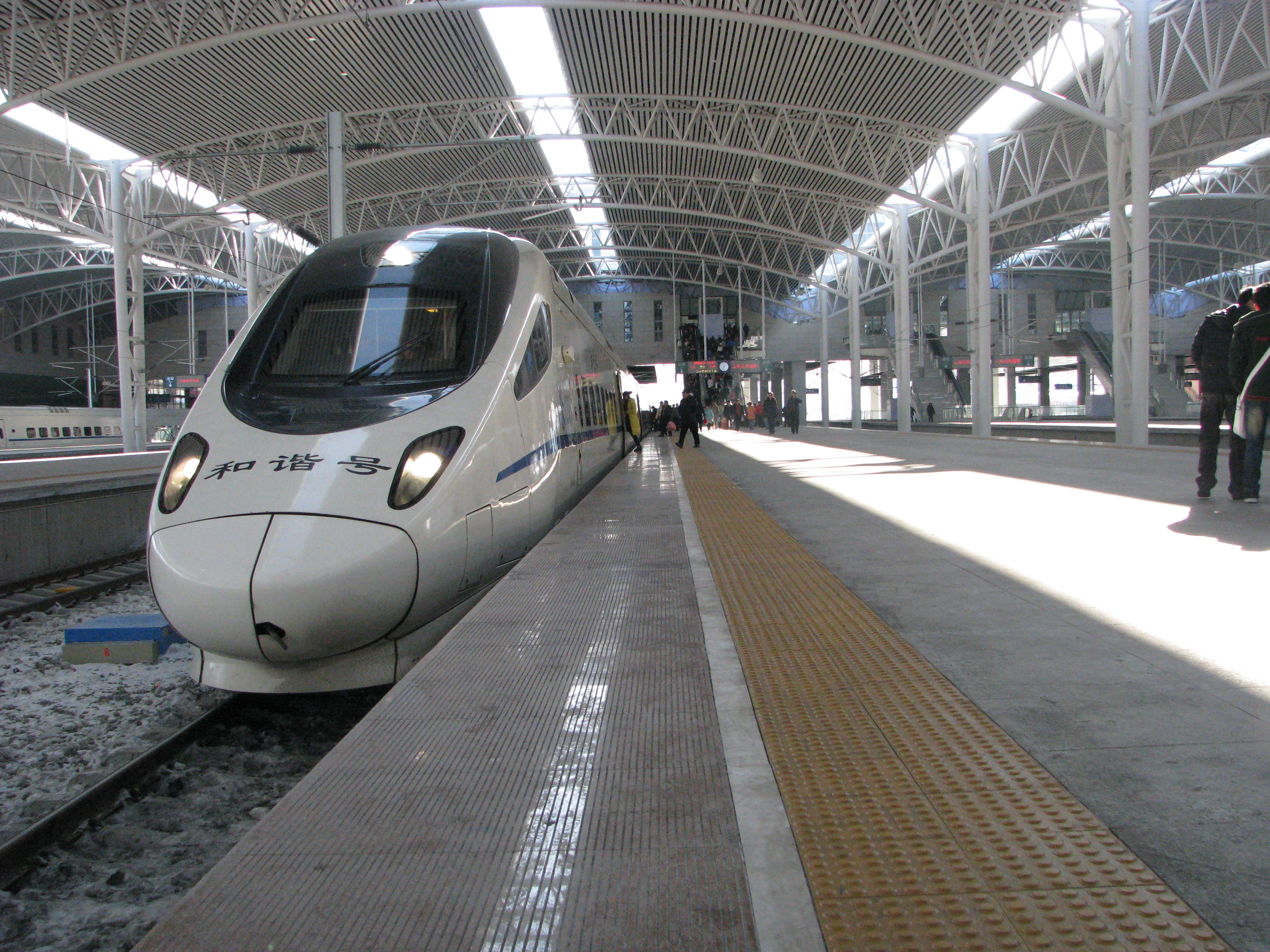 Jilin Railway station platform with CRH5 in background